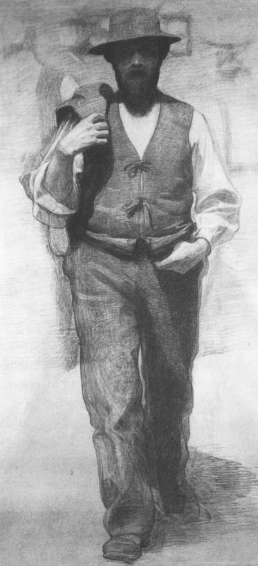 Studio di figura maschile, Pellizza